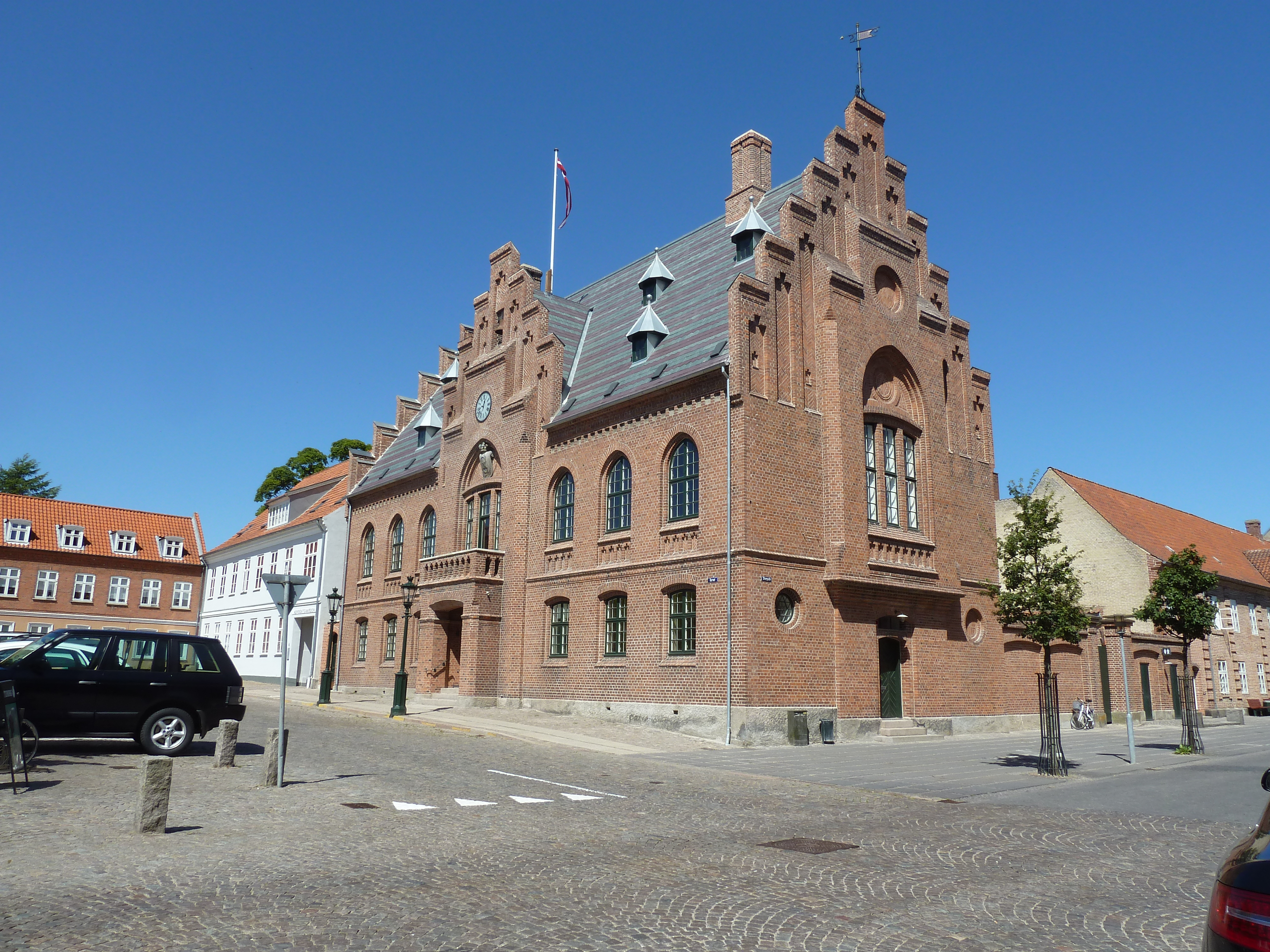 Sorø Ting- og Arresthus in Sorø, Denmark